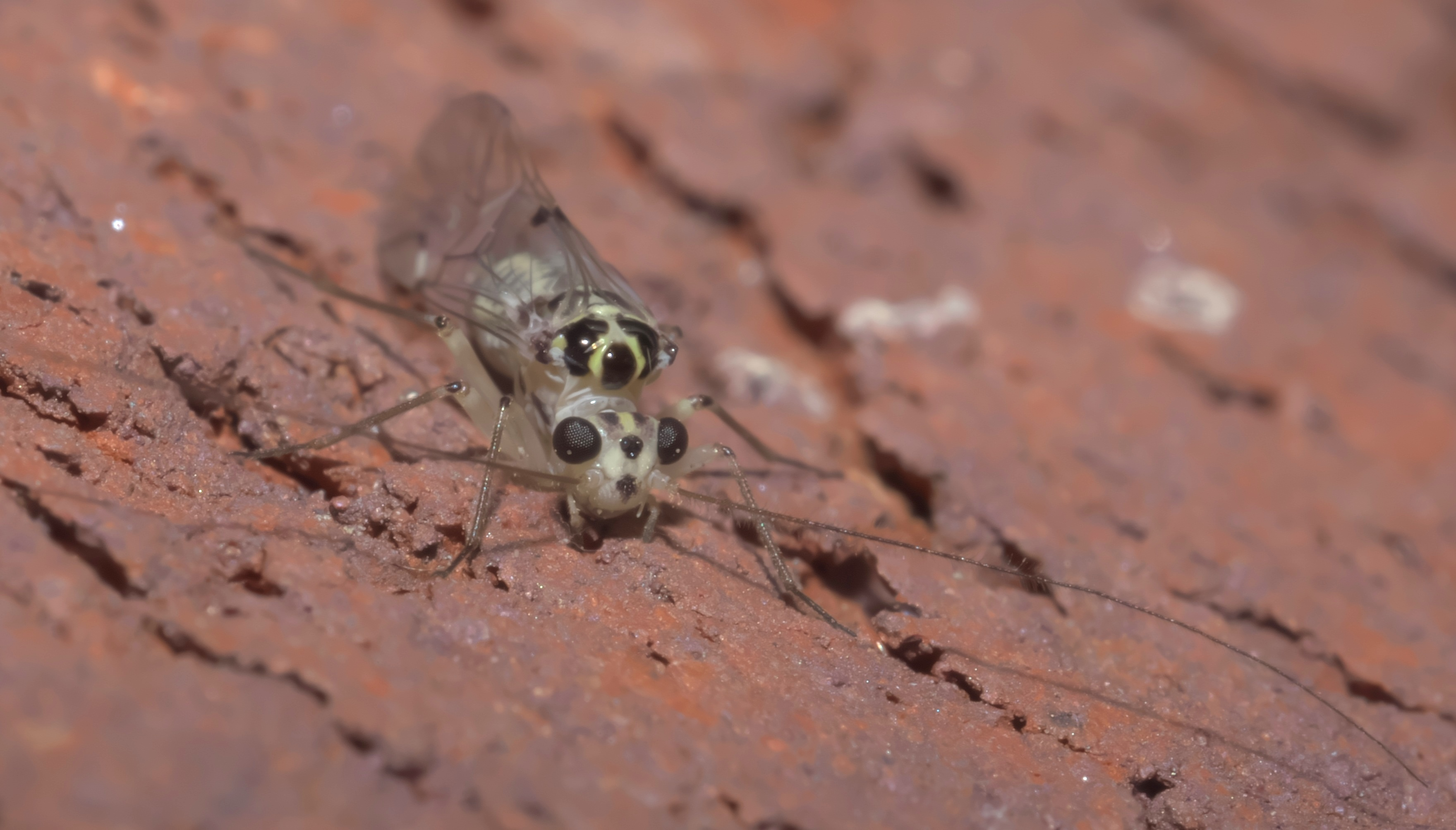 Metylophorus purus, Family: Common Barklice, ID Confidence: 98